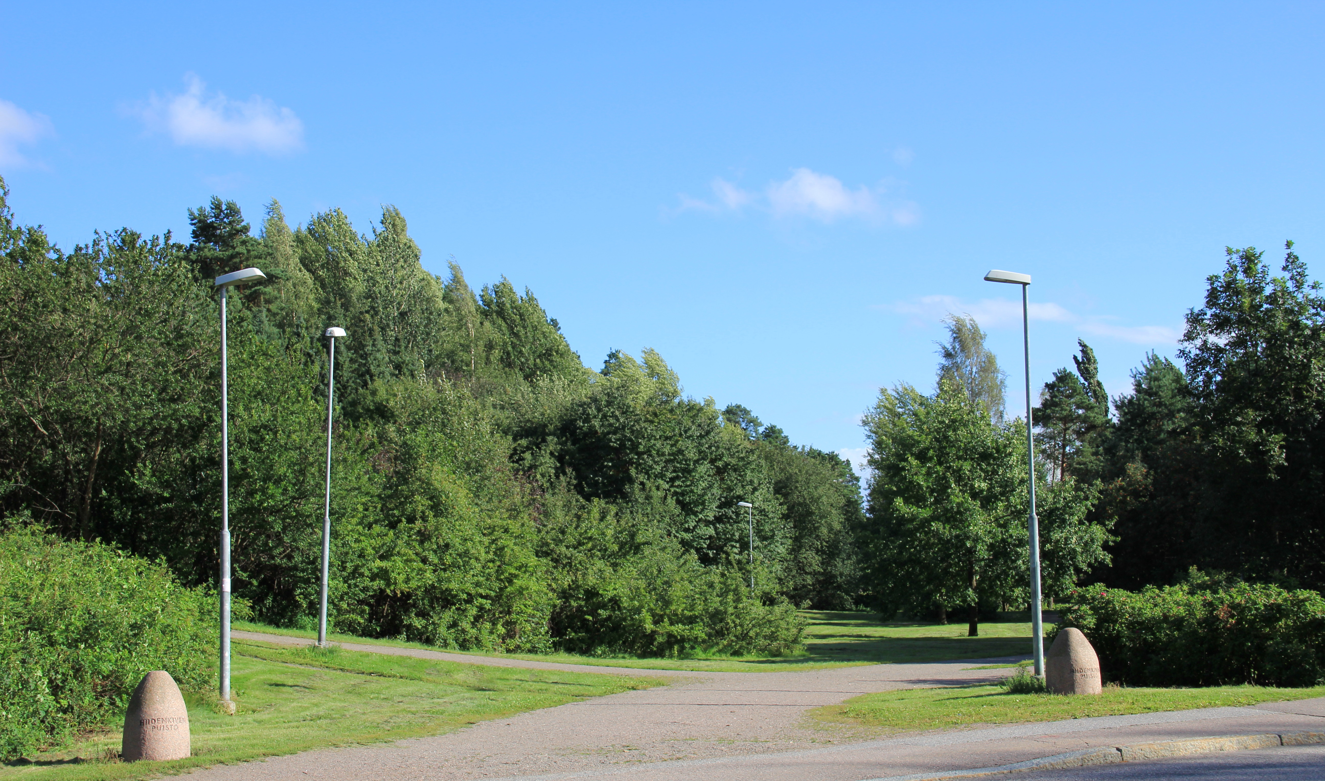 Hiidenkivi park, Tapanila, Helsinki, Finland.